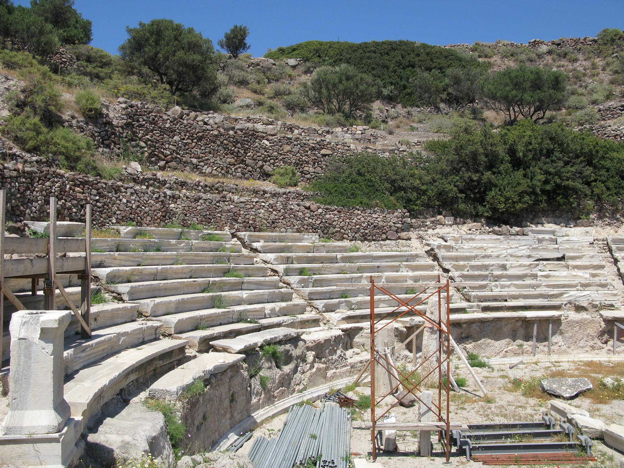 Partial view of Milos Ancient Theater